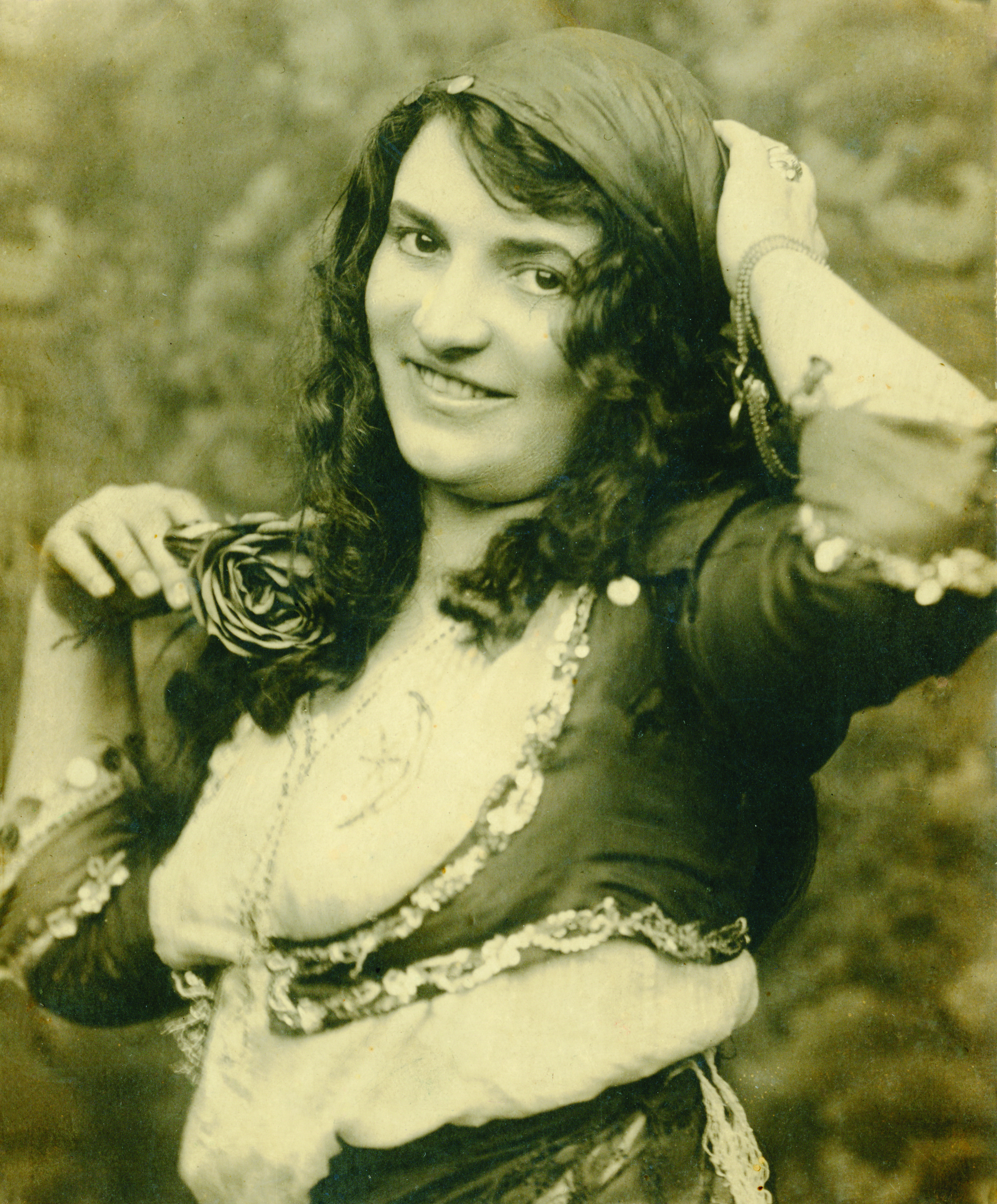 Draga Spasić (1876-1938) actress, opera singer and director as Koštana, in the same name play by Borisav Stanković, approx. 1914 Srpski (latinica): Draga Spasić (1876-1938), glumica, operska pevačica i reditelj, kao Koštana u istoimenom komadu Borisava Stankovića, oko 1914. Српски (ћирилица): Драга Спасић (1876-1938), глумица, оперска певачица и редитељ, као Коштана у истоименом комаду Борисава Станковића, око 1914.